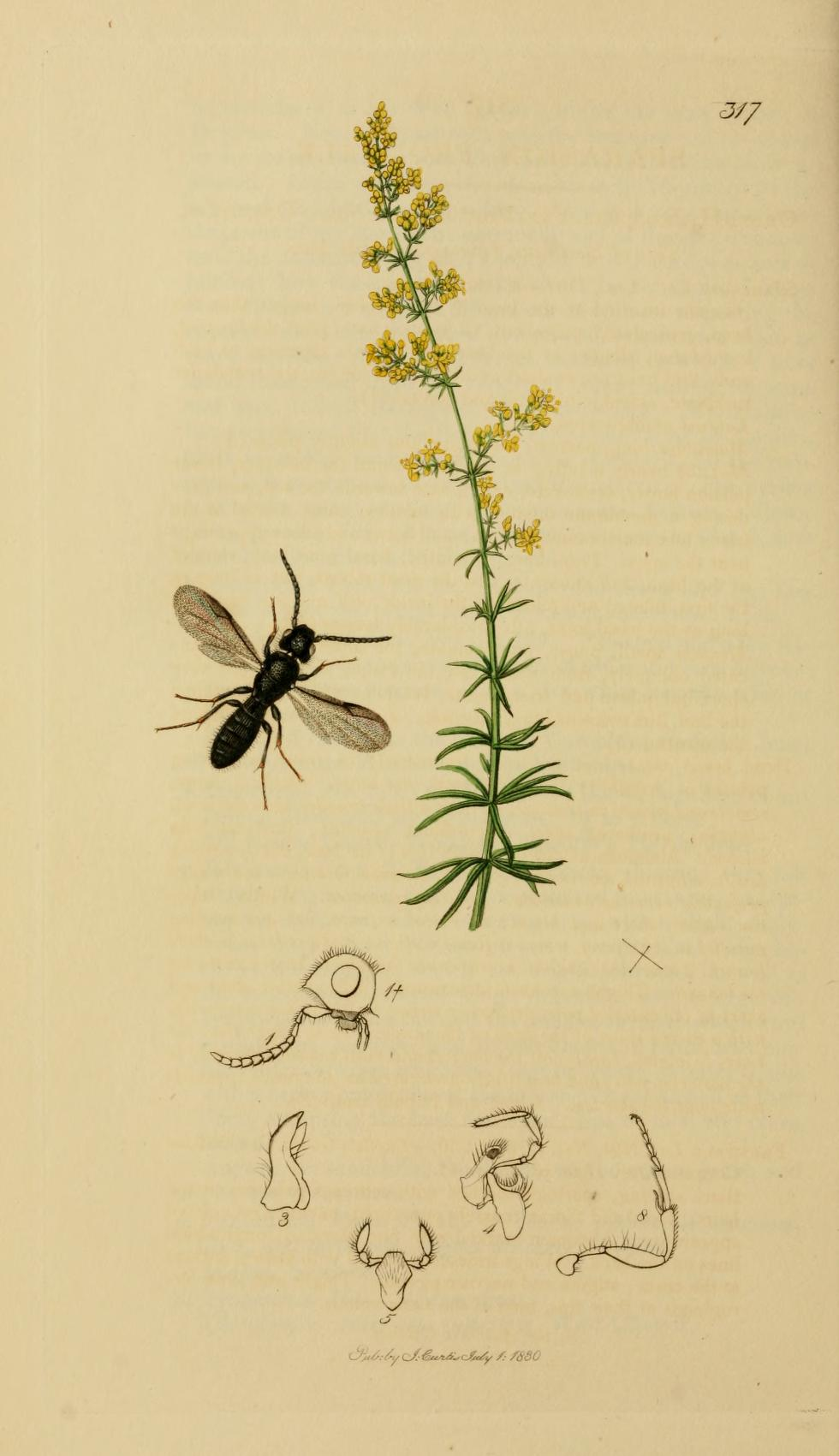 An illustration from British Entomology by John Curtis.Sparasion frontale Valid name Sparasion frontalis the Horned Sparasion